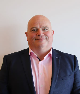 Official portrait of Mark Wall (politician) TD used on the Houses of the Oireachtas website.